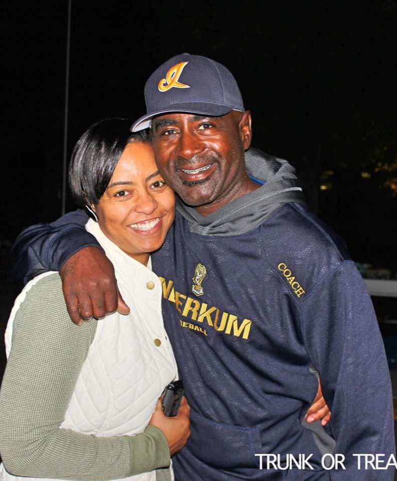 Picture of Kevin Brown and his wife from October 2017